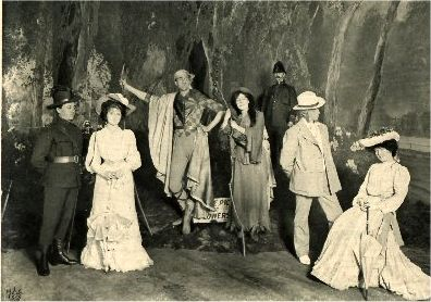 The principals in A Princess of Kensington